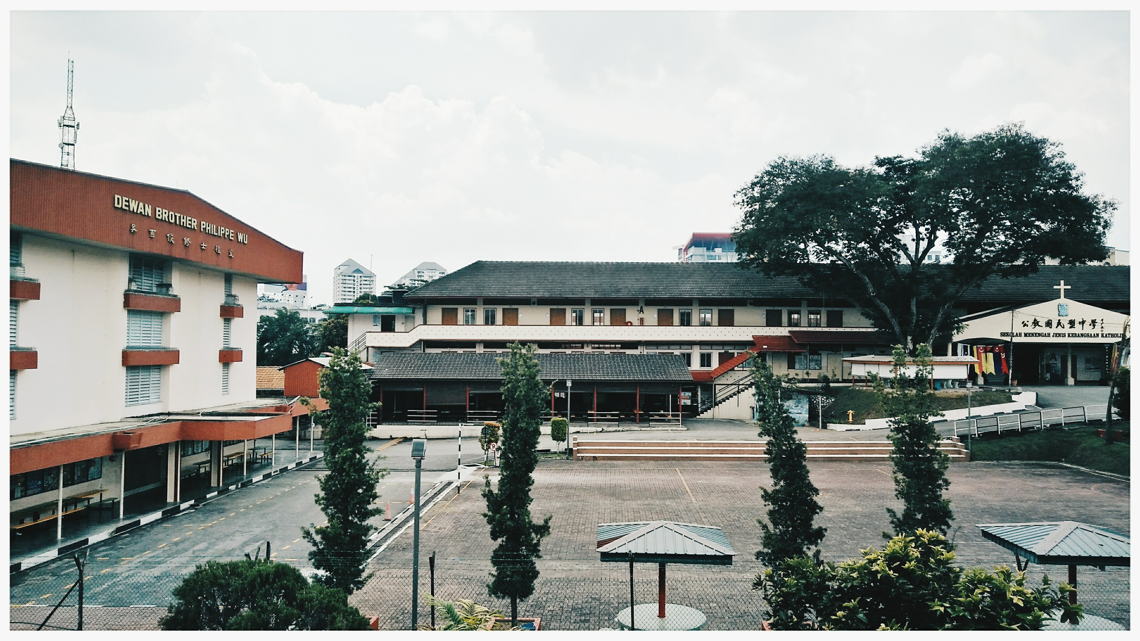 The frontage of CHS.